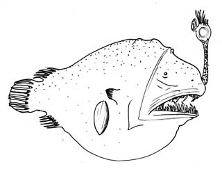 Drawing of the Can-opener Dreamer, Chaenophryne longiceps